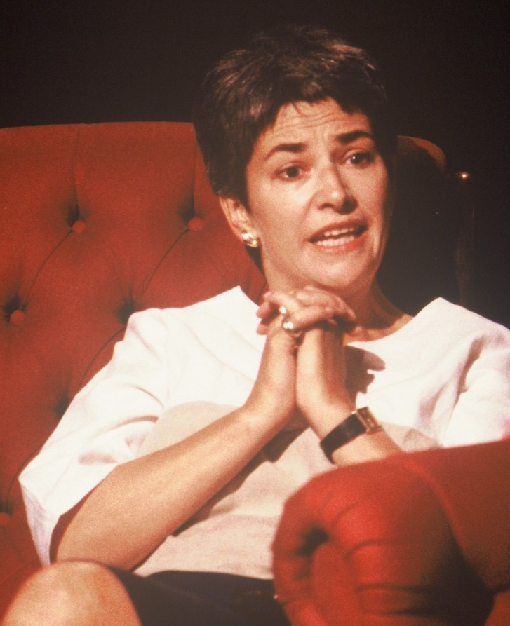 Anna Raeburn appearing on After Dark on 23 September 1989. Other guests included Jeffrey Masson, Stuart Sutherland, Isabel Menzies Lyth and Ralph Steadman.